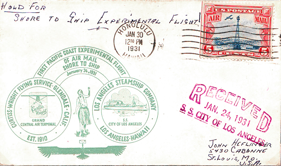 Flown U.S. Air Mail cover carried on the "First Pacific Ship-to-Shore Mail" to and on the SS City of Los Angeles, January 26-30, 1931. The Cooper Collection of Aerial Postal History Photograph by uploader Licensing Stamp Cachet Image Fair use in USS Aeolus It is believed that this image qualifies under fair use in USS Aeolus because: The image depicts a commemorative artifact (U.S. Air Mail cover) that was carried aboard the SS City of Los Angeles (formerly USS Aeolus) during an important event in the ship's history; the artifact were specifically created to commemorate and promote the ship's operations in conjunction with the "Shore-to-Ship" Air Mail experiment. The promotional items depicted in this image cannot be otherwise created as a free alternative. Image is only being used in Wikipedia articles for informational and educational purposes. The image's inclusion here will not result in financial loss to the copyright holder (if any). It directly relates to the article.